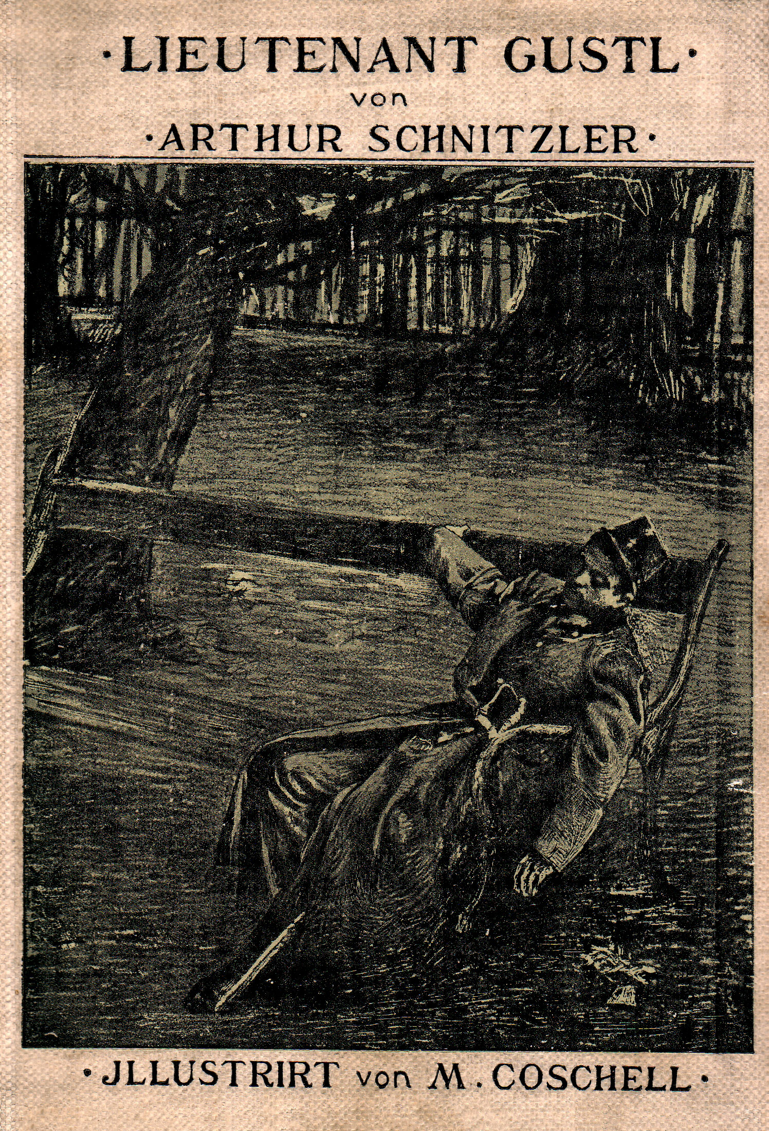 Cover of 1st. Edition